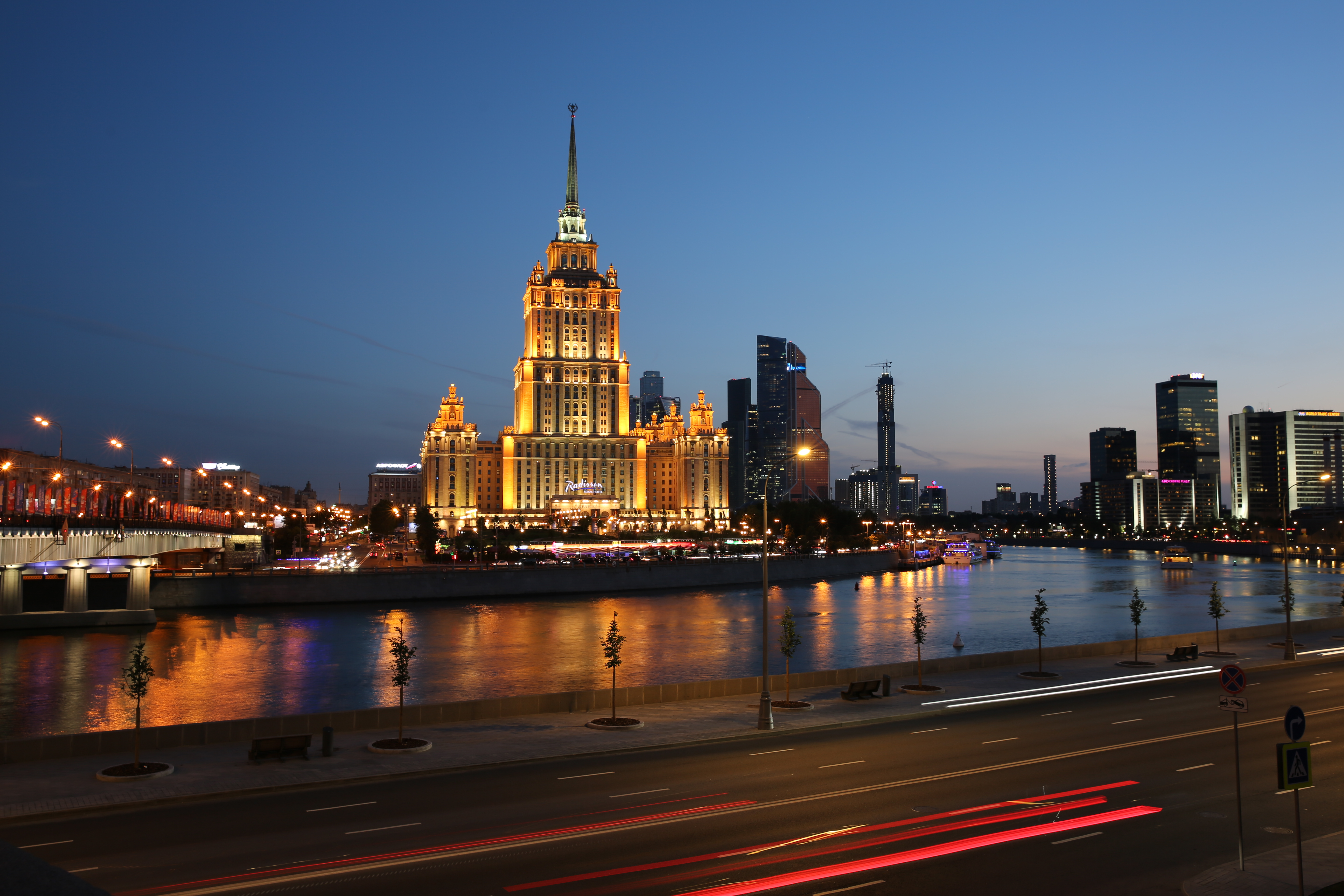 Hotel Ukraina, Moscow (Radisson Royal Moscow)